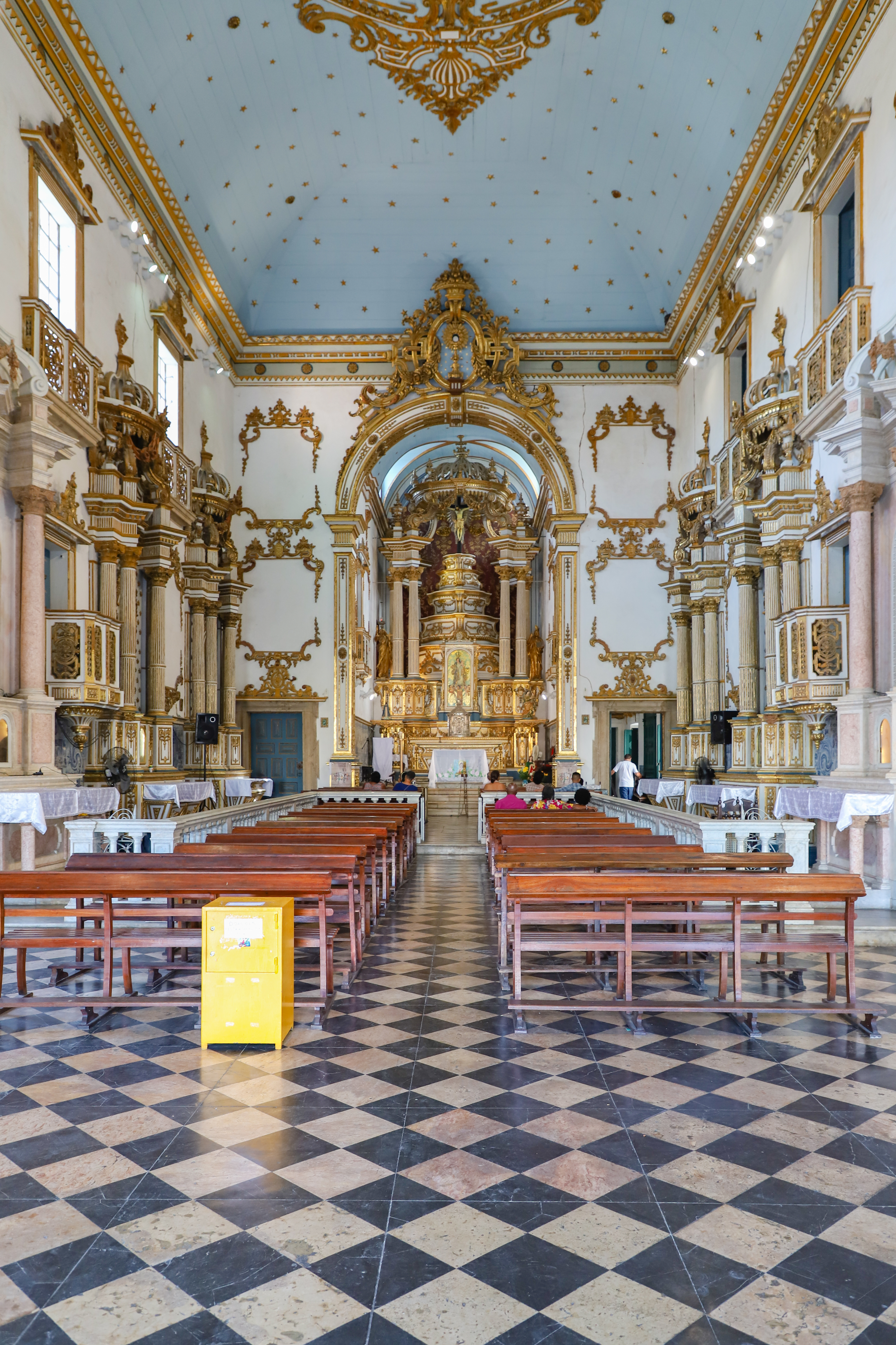 Nave and chancel, Igreja de Nossa Senhora do Pilar, Salvador, Bahia, Brazil.